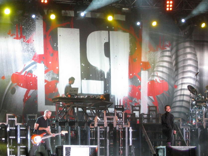 Linkin Park at the Novarock Festival.